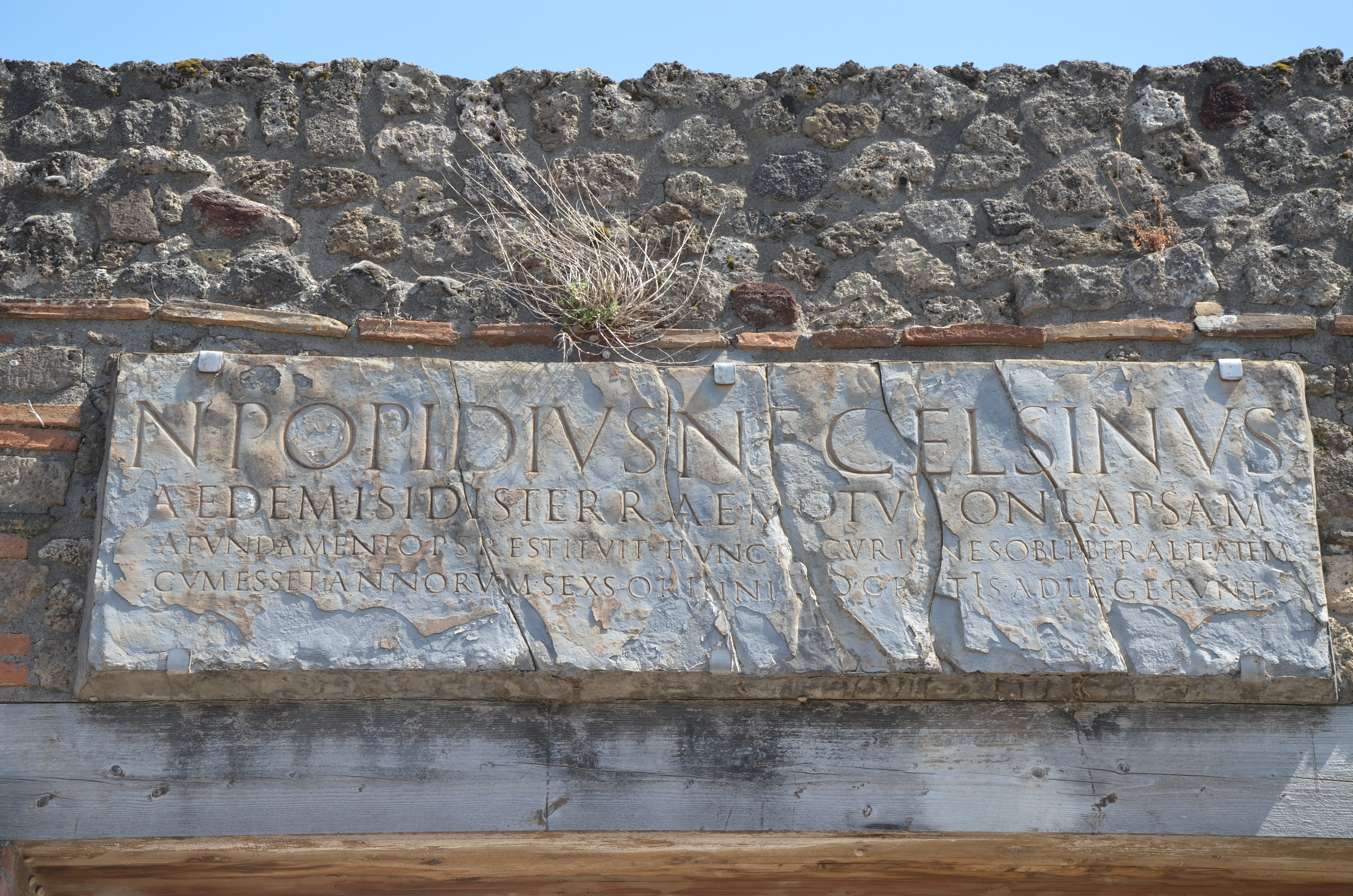 Pompeii, Temple of Isis - copy of dedicatory inscription to the temple reconstruction after the earthquake of AD 62, financed by the freedman Numerius Popidius Ampliatus in the name of his son Celsinus.